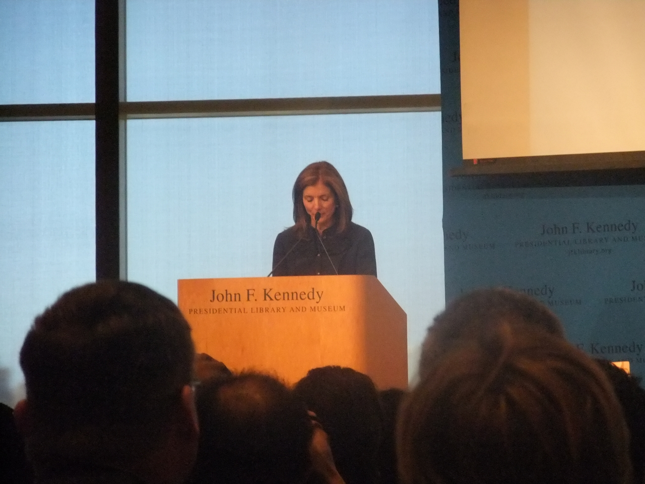 Caroline Kennedy officiated over the first annual Pen Awards for songwriting excellence-at the JFK Presidential Library, Boston, Mass. on Feb. 26, 2012. The honorees were Leonard Cohen and Chuck Berry.